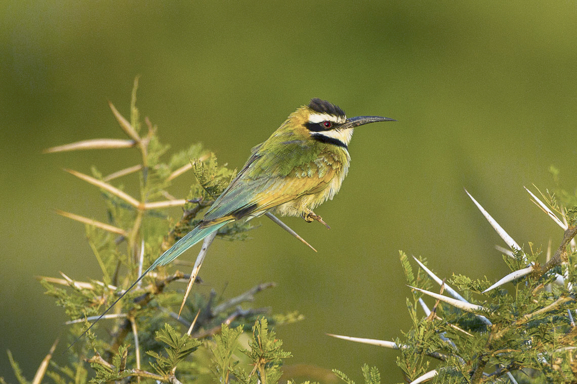 Male White-throated Bee-eater - Kenya_S4E4811